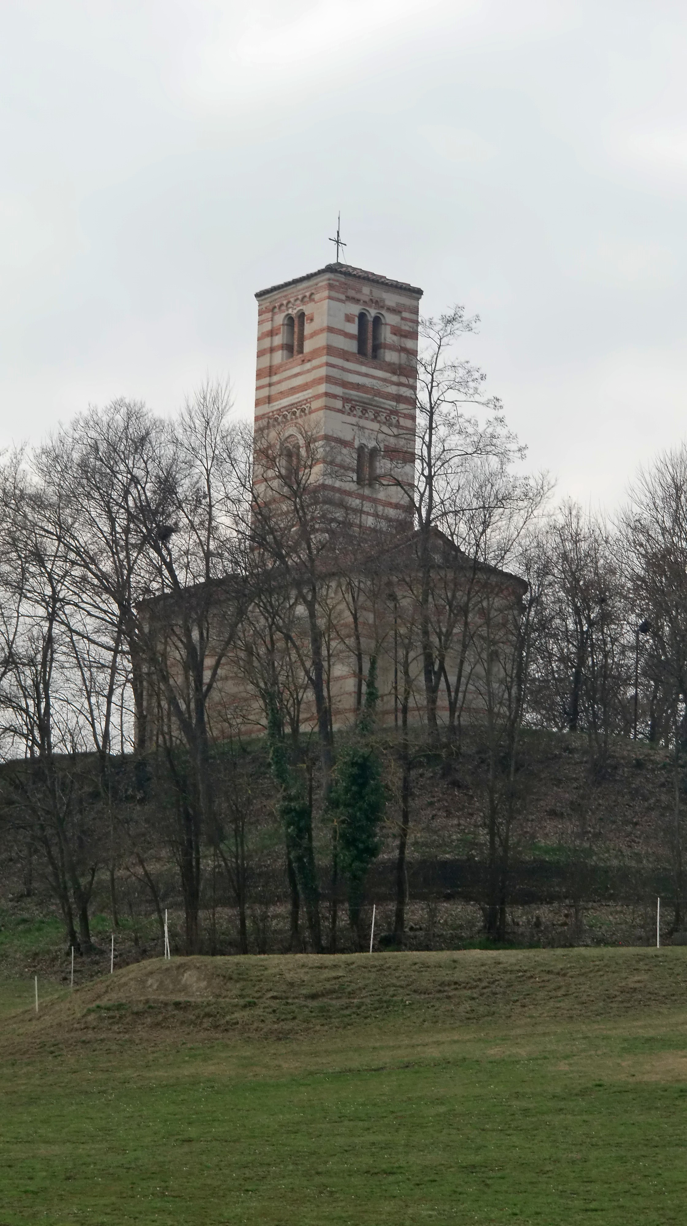 Chiesa dei Santi Nazario e Celso, Montechiaro d'Asti, Italy, romanesque church, XII century